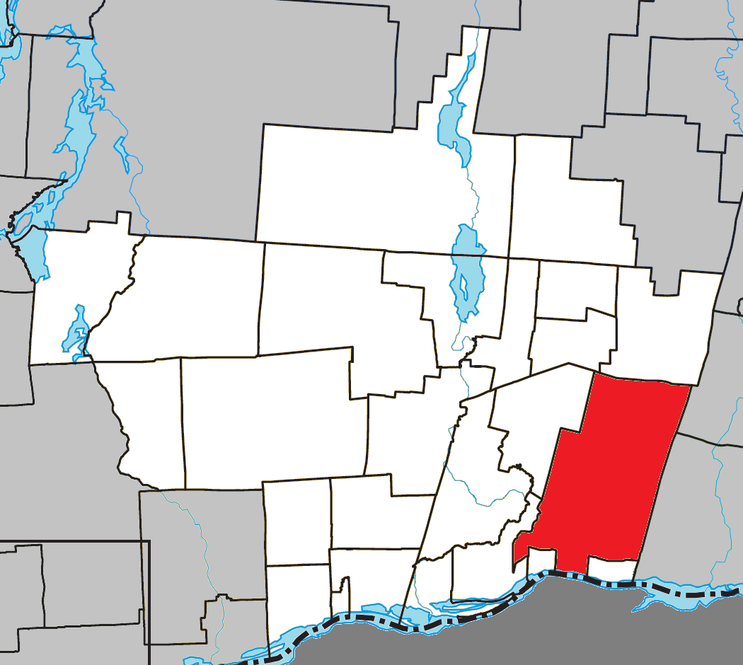 Location of Notre-Dame-de-Bonsecours, Quebec within Papineau Regional County Municipality.